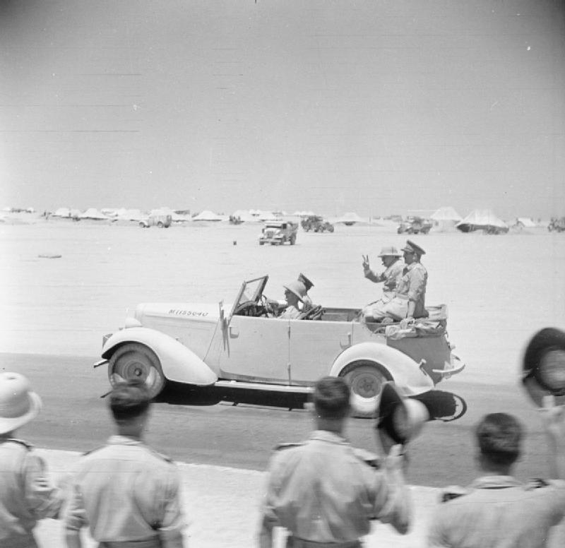 Winston Churchill Visits Armoured Units at Tel-el-kebir, Egypt, August 1942 Cheering troops line the road to welcome the Prime Minister Winston Churchill during his tour of armoured units at Tel-El-Kebir, Egypt, on 9 August 1942.